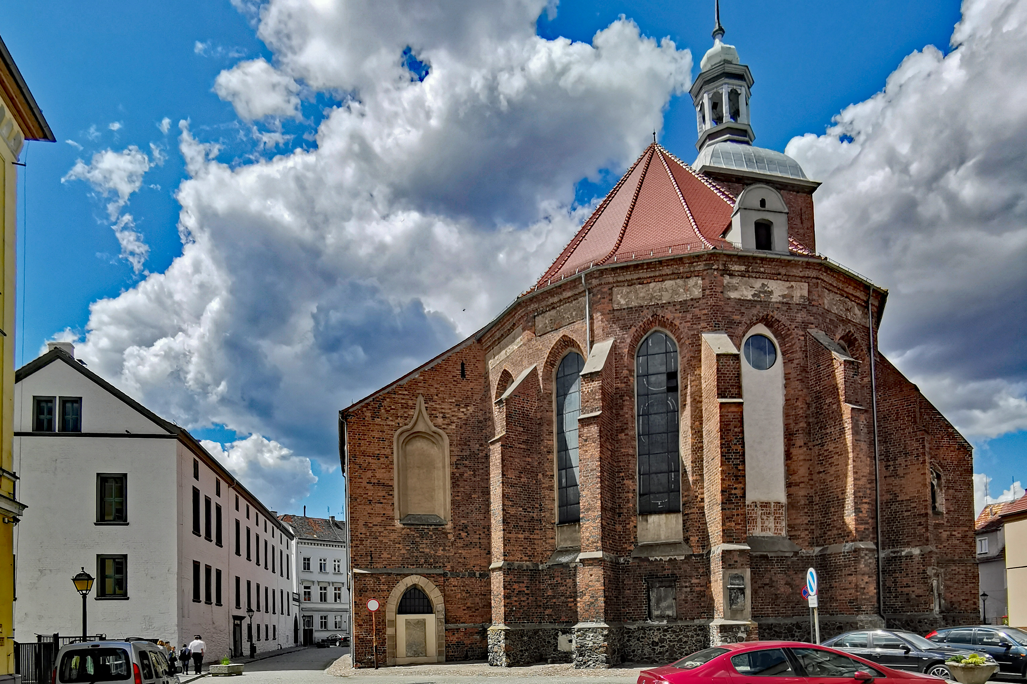 Former monastery in Szprotawa (Poland)